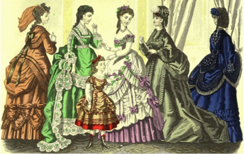 Bustle & Polonaise styles.